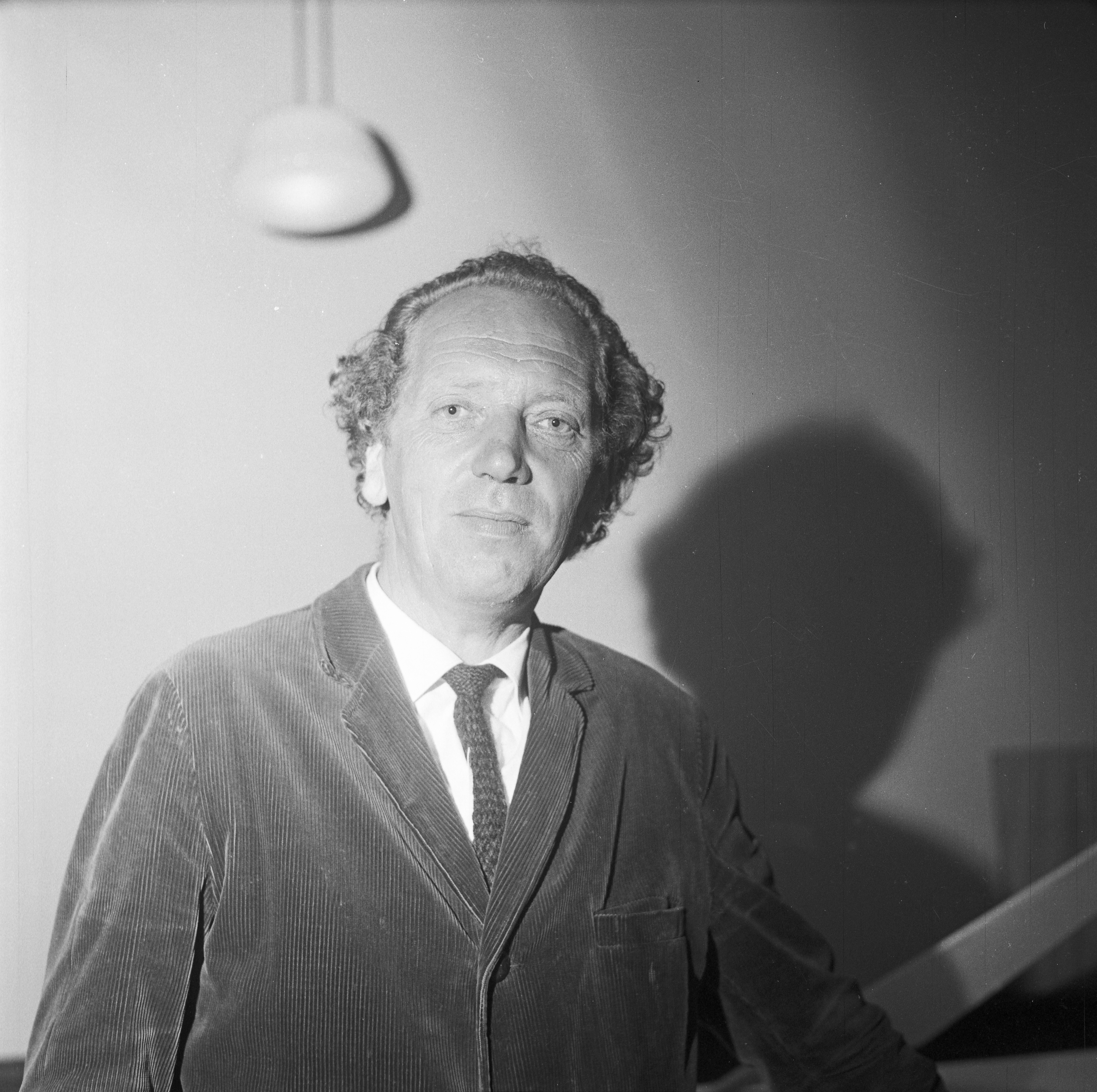 Format: Negativ 120 film Dato / Date: 1969 Fotograf / Photographer: Eirik Sundvor (1902 - 1992) Sted / Place: Bergen Wikipedia: Knut Steen (1924 - 2011) Eier / Owner Institution: Trondheim byarkiv, The Municipal Archives of Trondheim Arkivreferanse / Archive reference: Tor.H43.B79.F16489